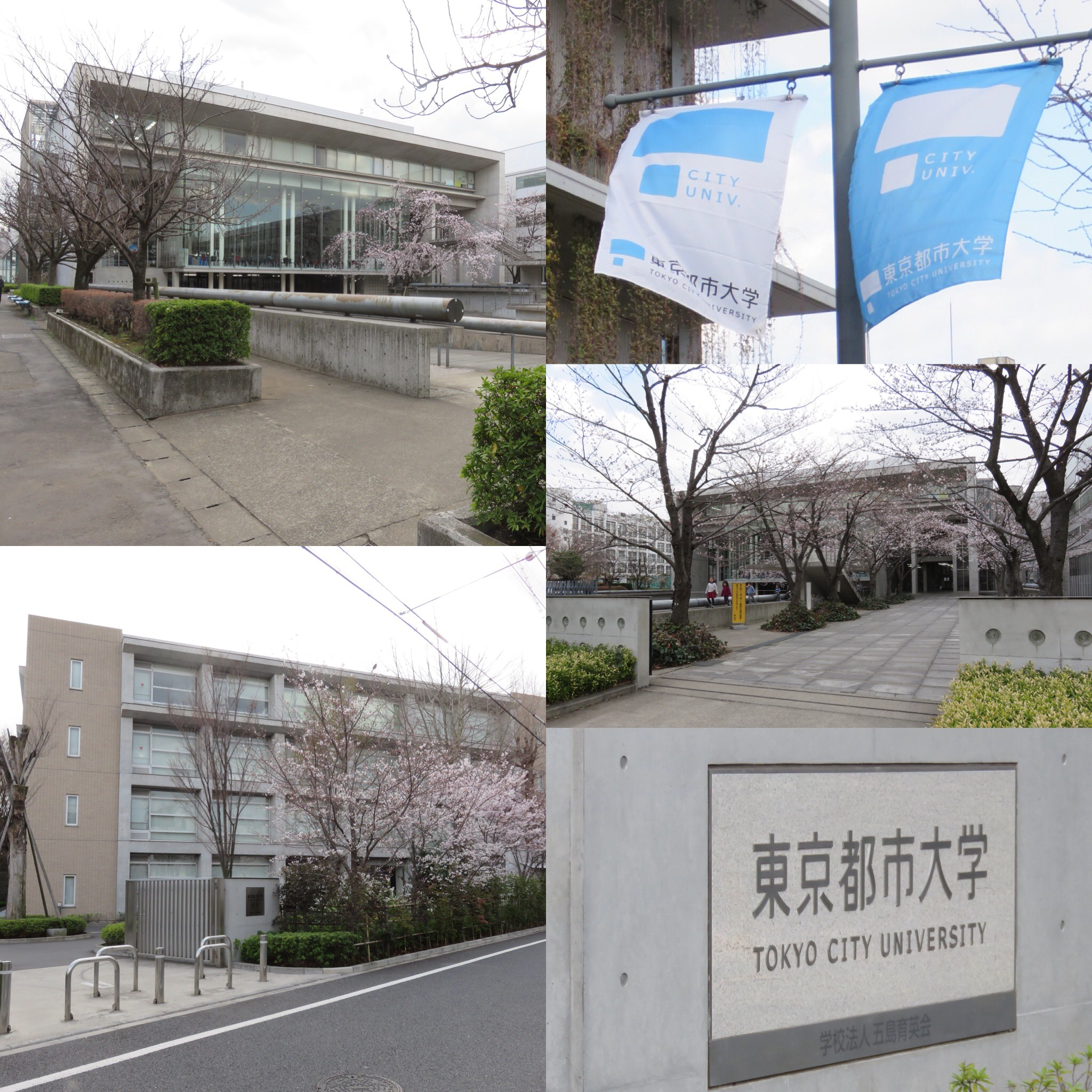 Tokyo City University, Main Campus